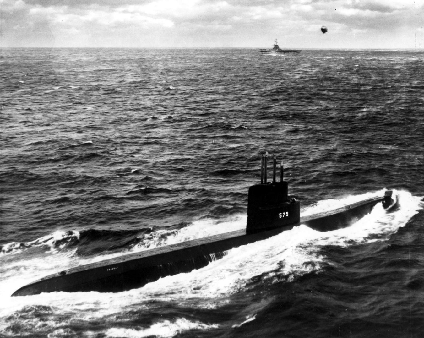 Seawolf (SSN-575), underway, circa 1960's, place unknown. CVA in the far background might be the Essex (CVA-09).